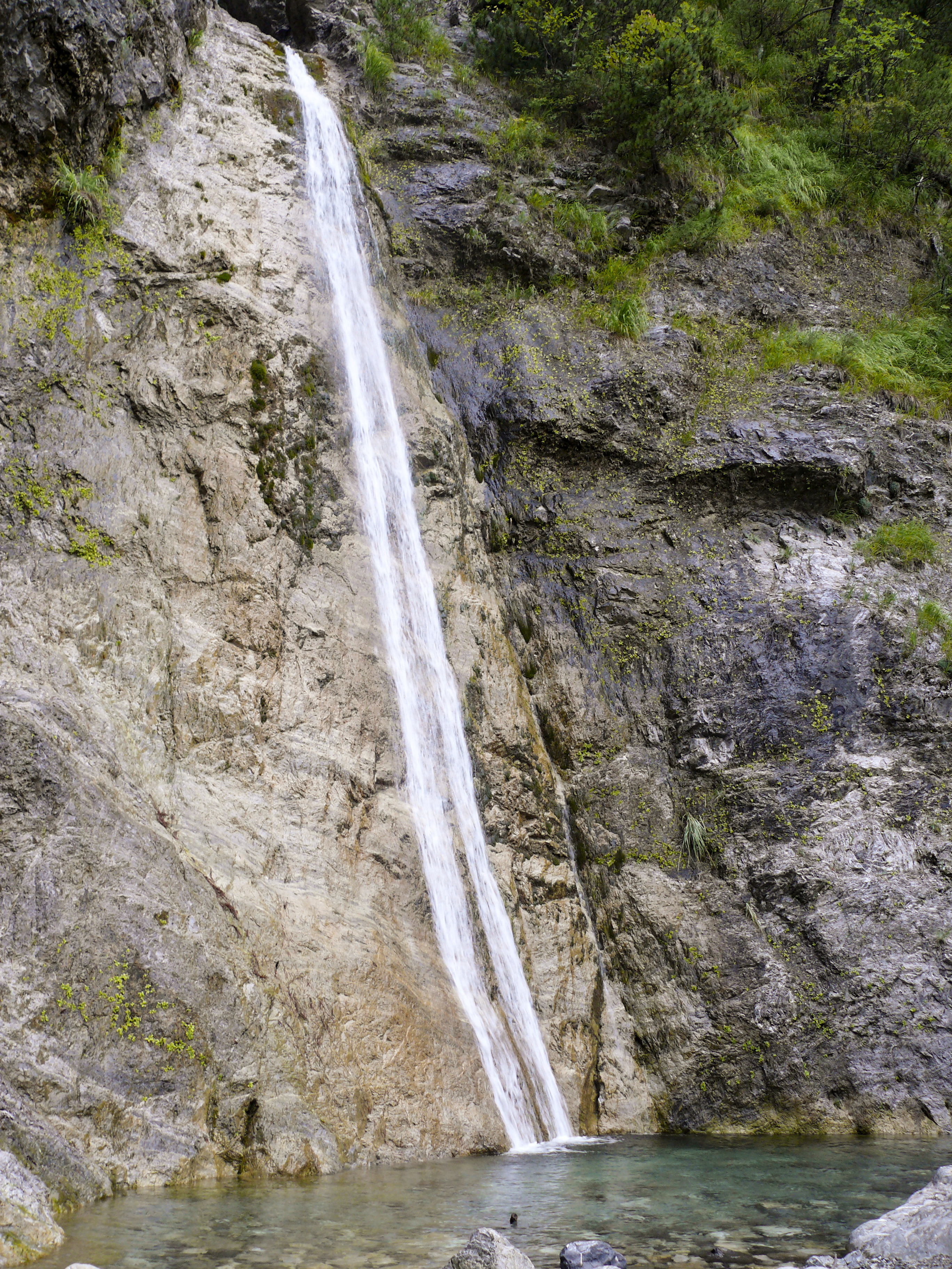 Waterfall in Thethi